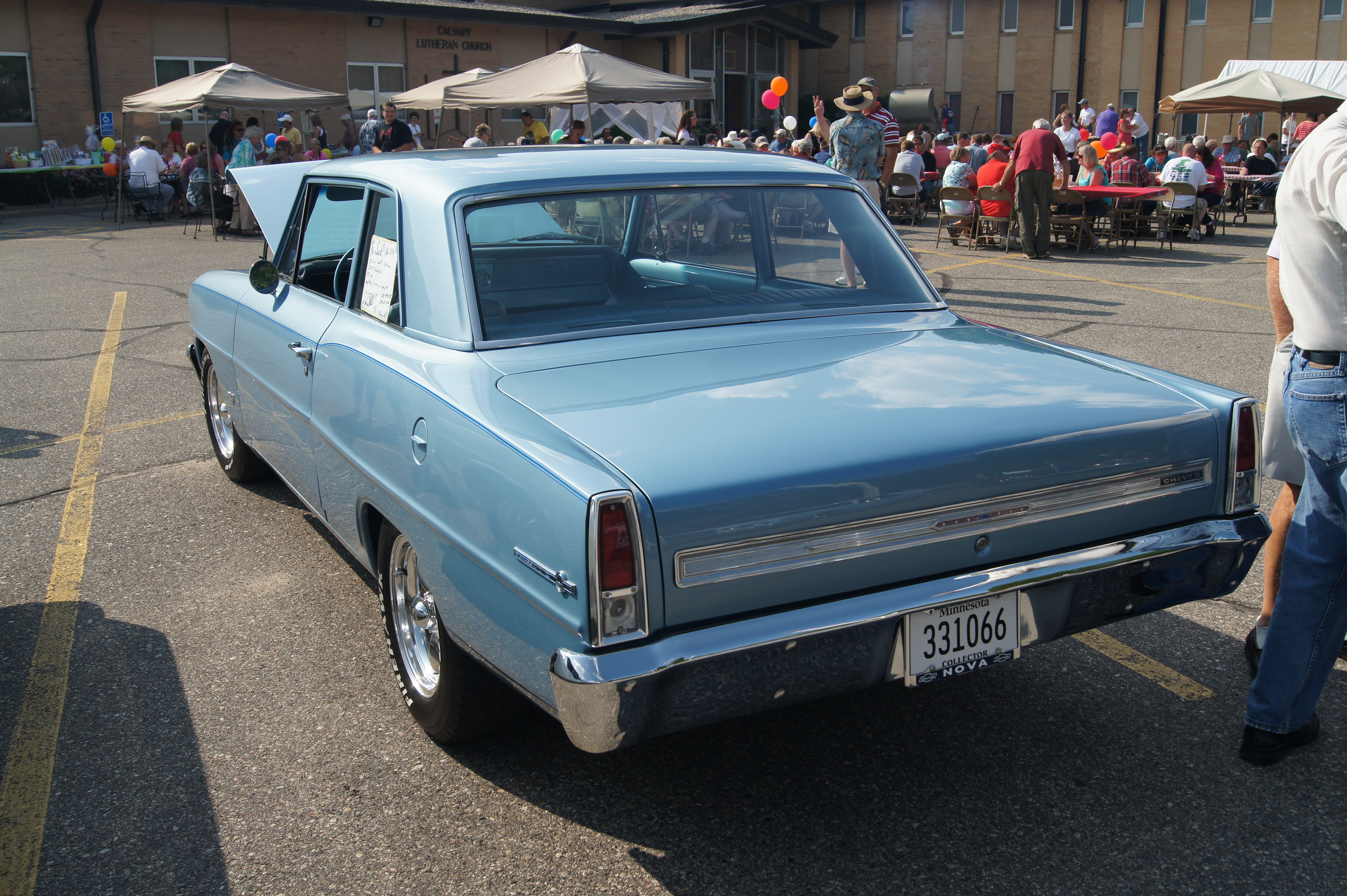 50's Drive-In Calvary Lutheran Church Willmar MN